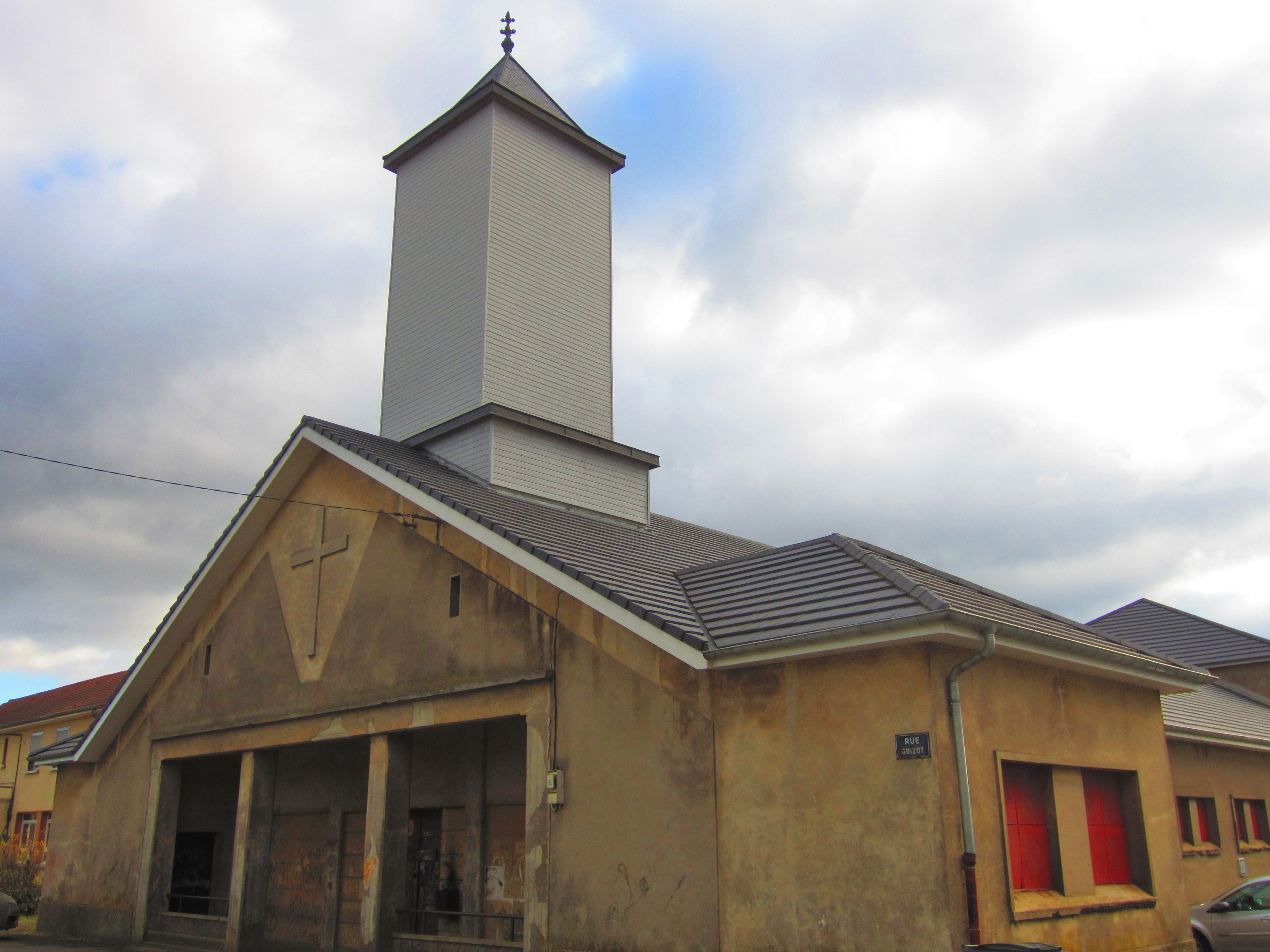 Batilly Paradis chapel